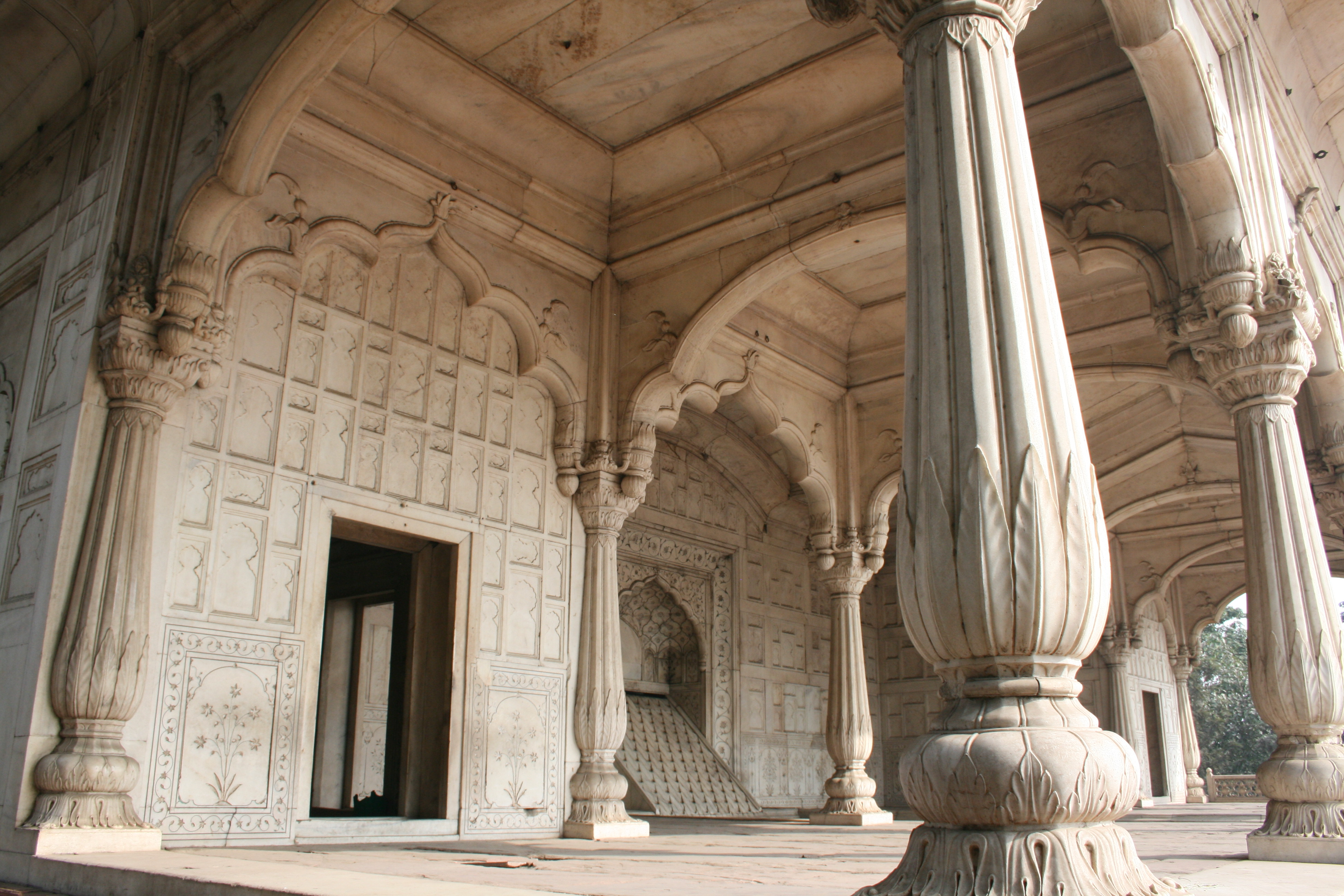 Red Fort, Delhi, India